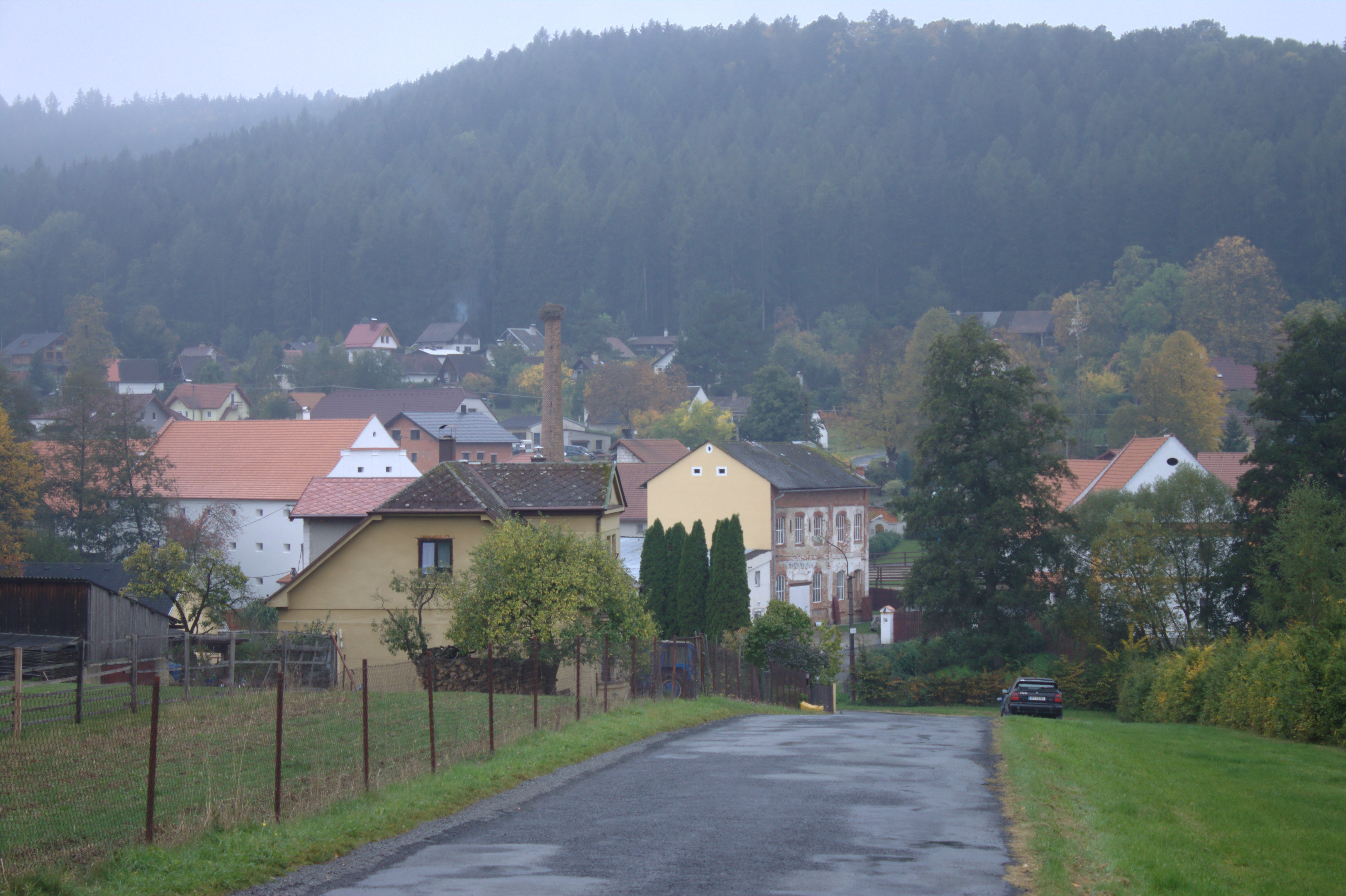 Buildings in the village of Srbice, Plzeň Region, CZ